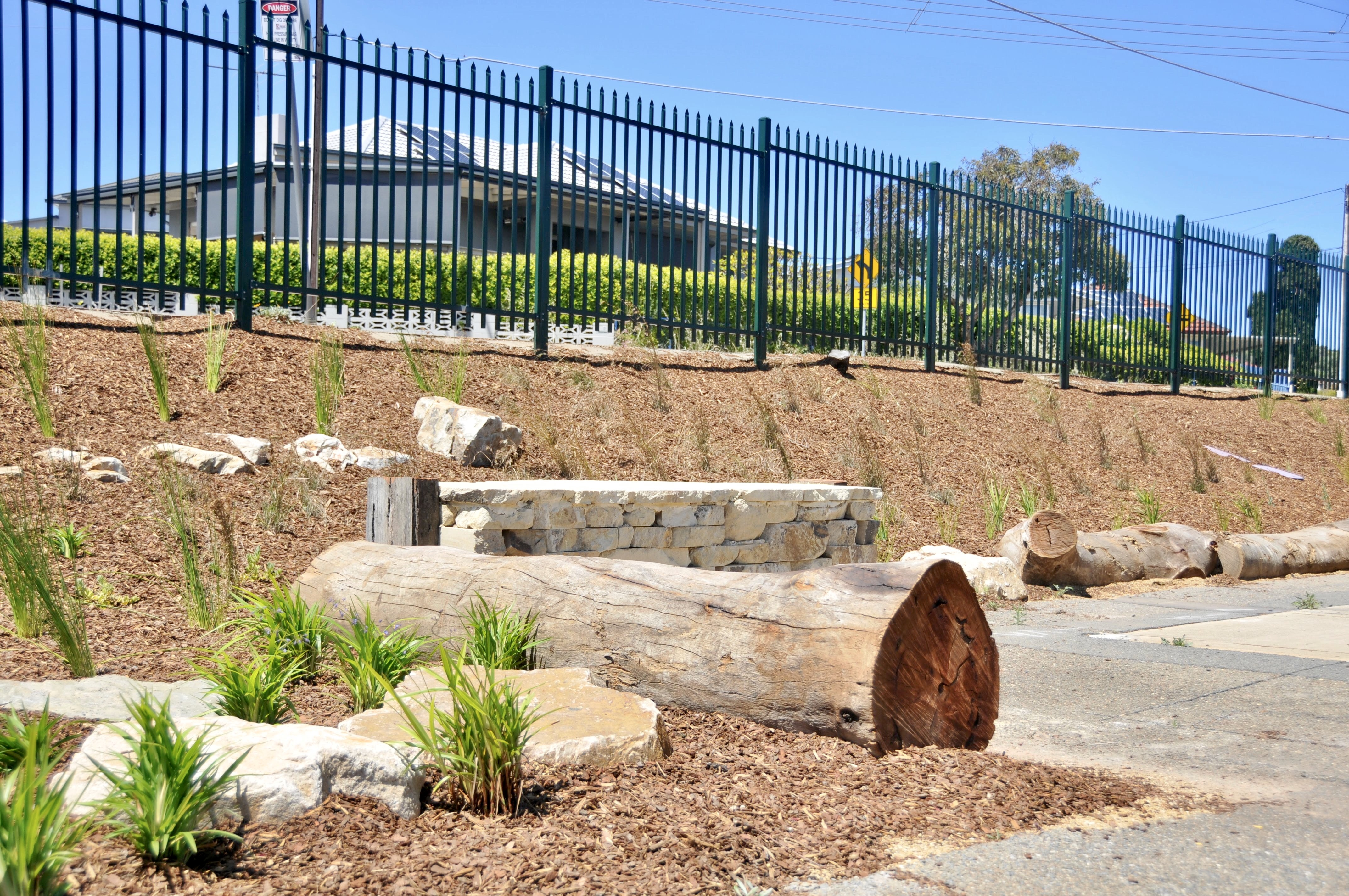 Newland Avenue overlooking Marino Rocks station